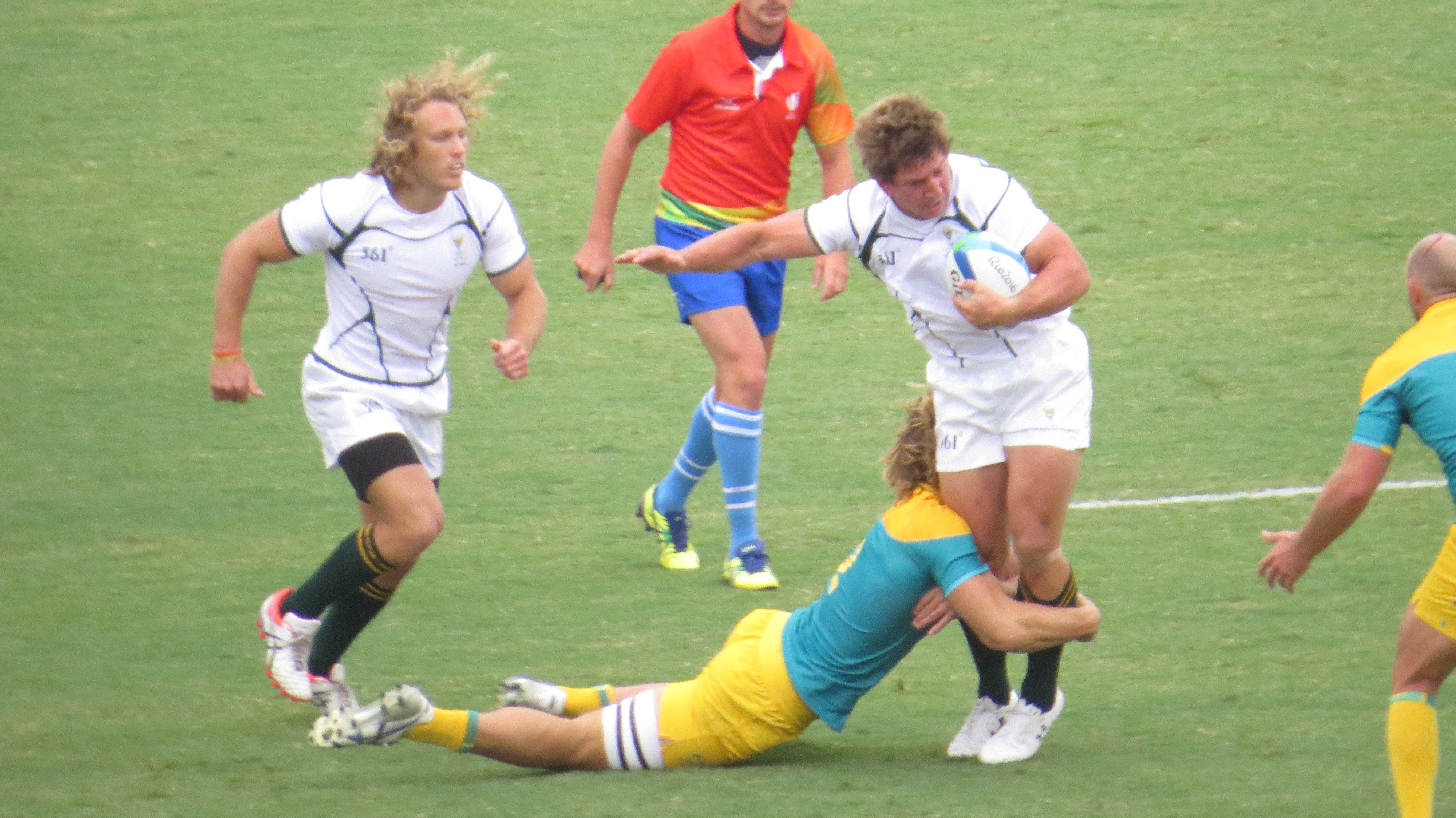 Rio 2016. Rugby 29